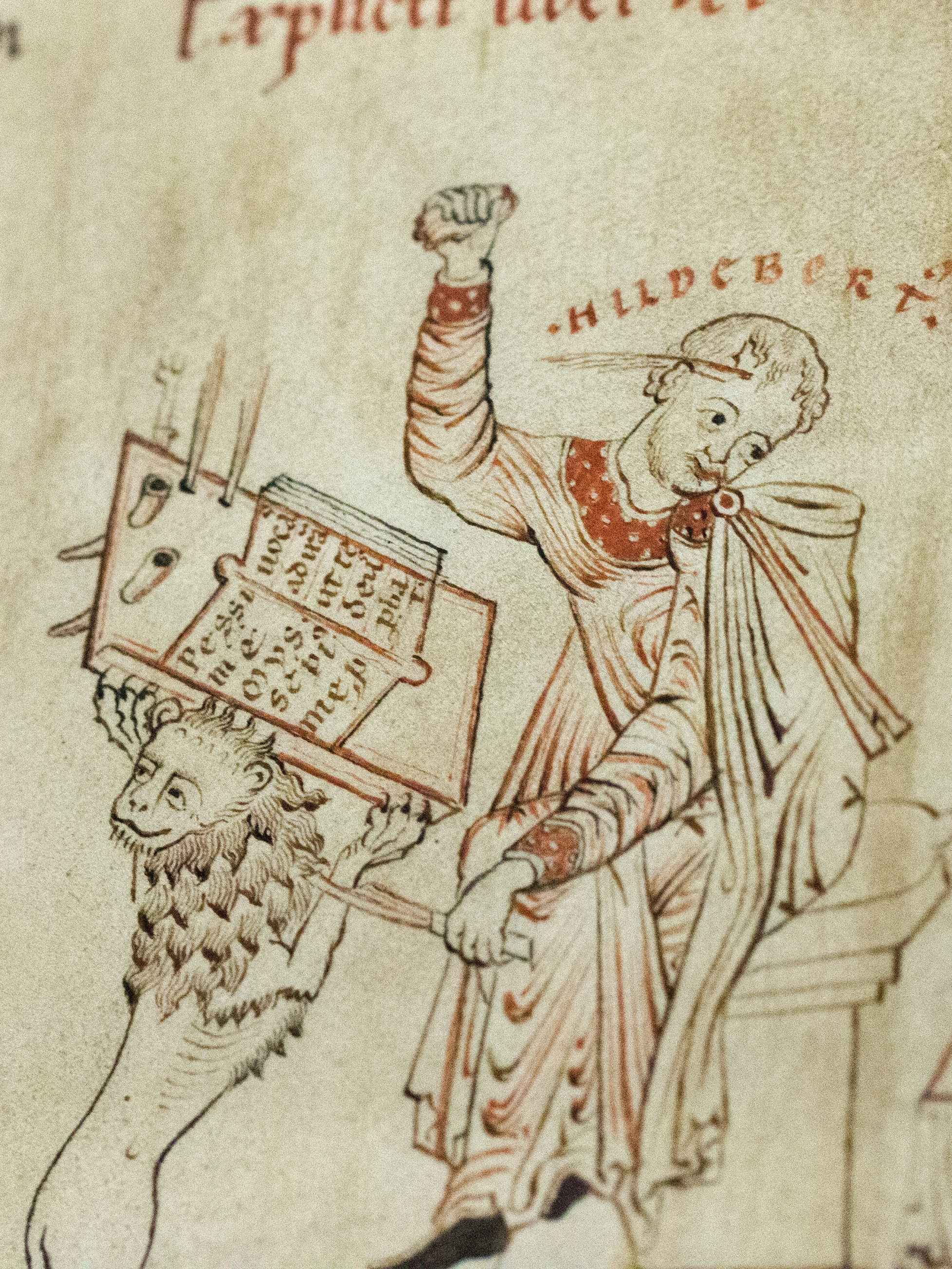 Facsimile: Aurelius Augustinus: De Civitate Dei. Olomouc - Prague, workshop of Hildebert and Everwinus, 1142-1150, parchment. The Archives of Prague Castle, The Library of the Metropolitan Chapter of St. Vitus, sign. A 21/1. Detail of Hildebertus.